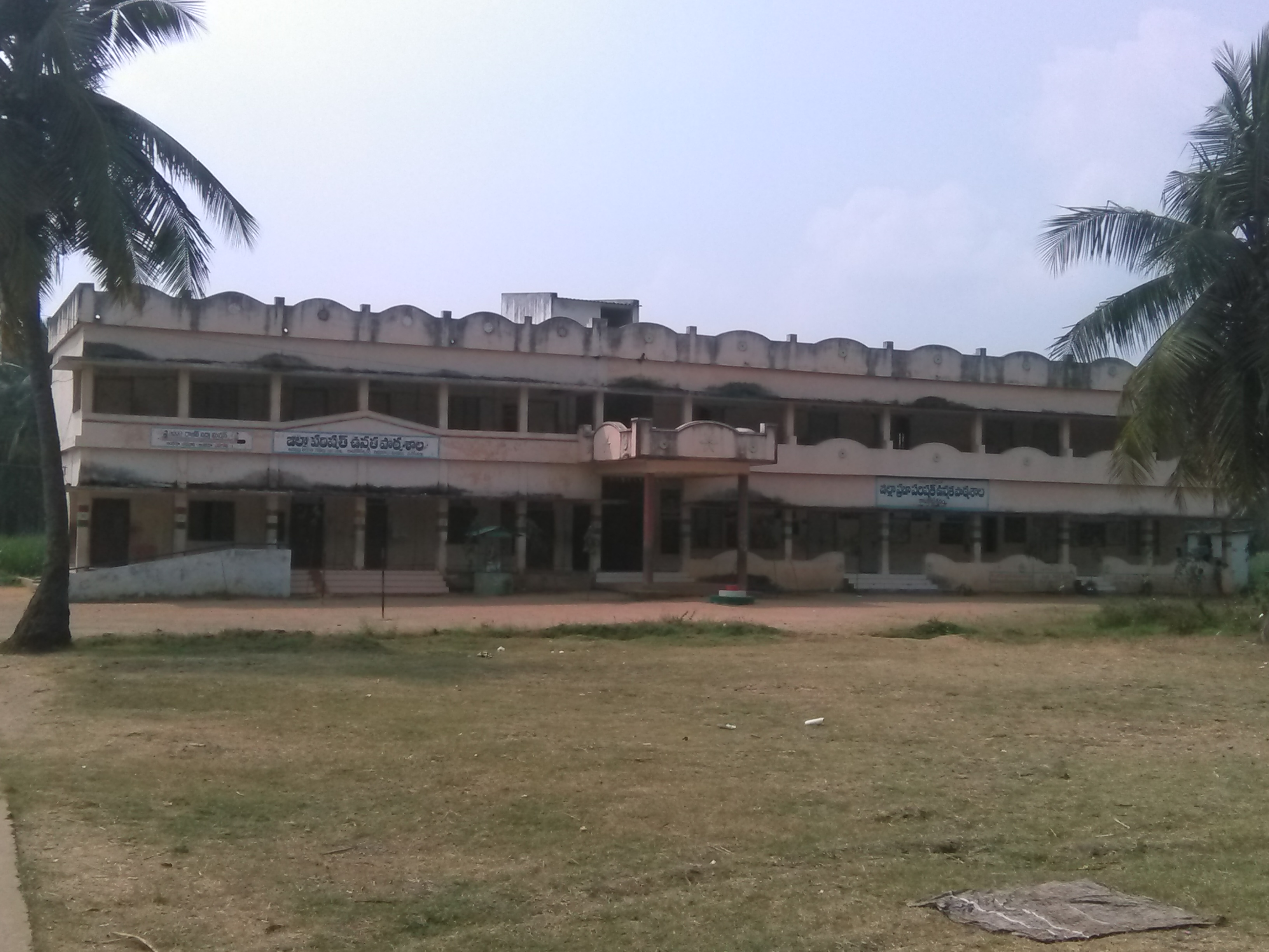 A.P Village of Kata Koteswaram Highschool